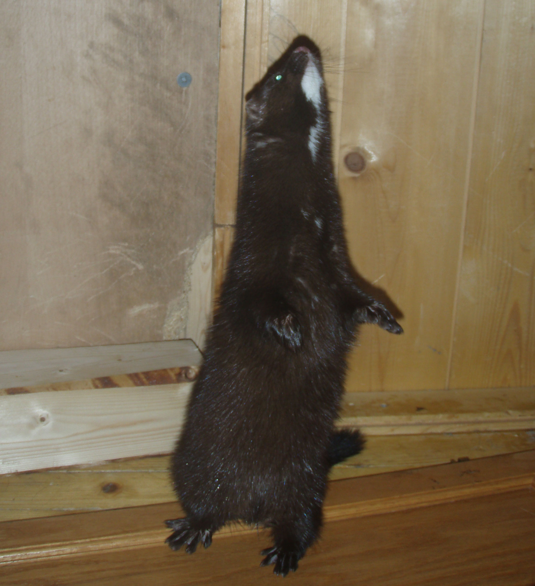 Mustela Vison, American Mink, male